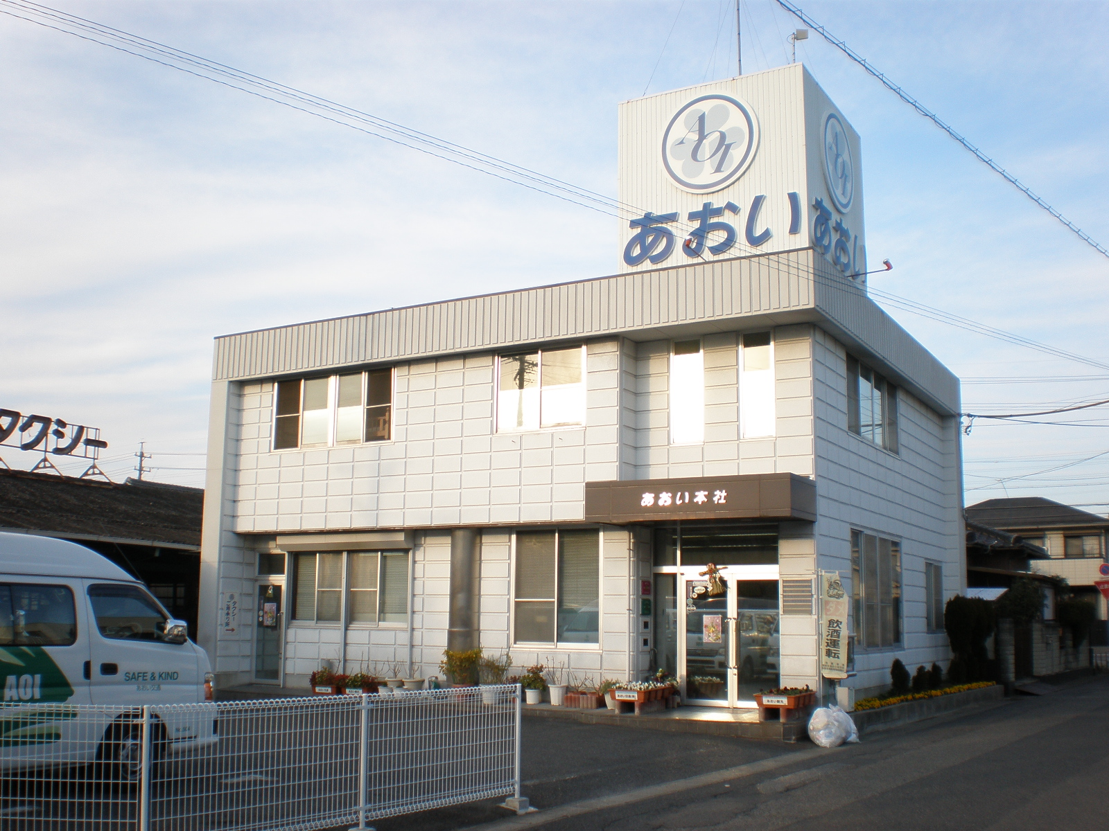 This building is the head office of Aoi-Traffic in Komaki, Aichi Pref.